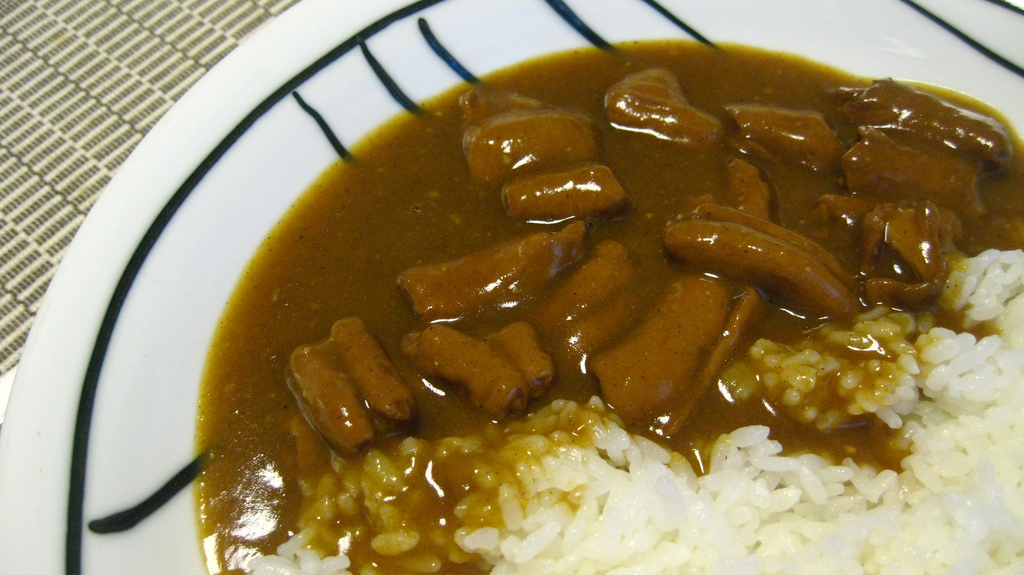 Motsu Curry